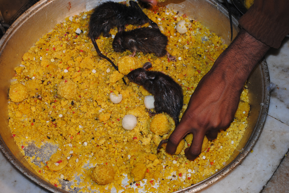 Rats eating prasad in Karni Mata Temple